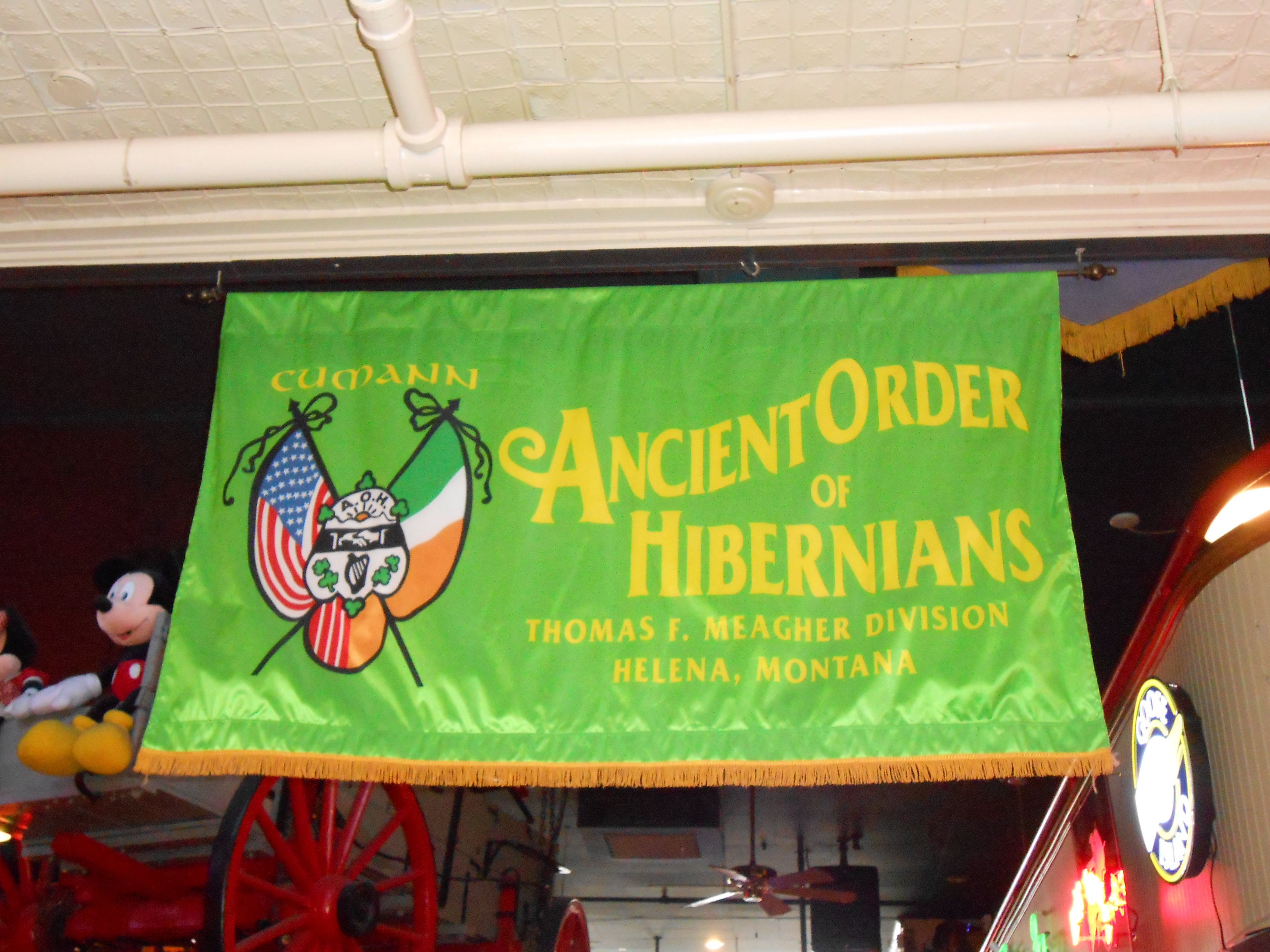 Helena Montana Chapter of the Ancient Order of Hibernians named in Honor of Territorial Governor Thomas Francis Meagher. Now hanging in Bert and Ernie's Saloon and Eatery, Helena, Montana